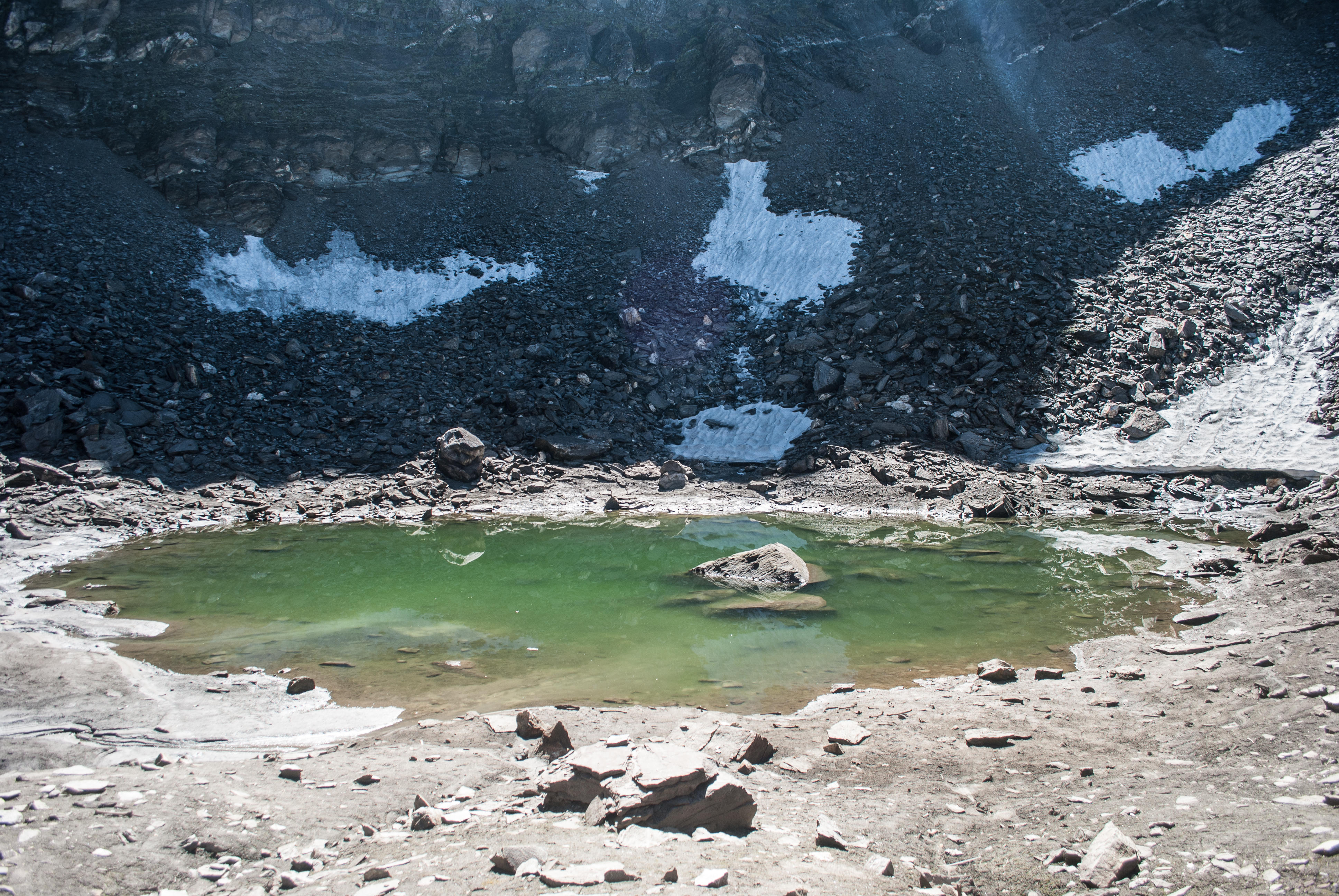 The roopkund lake in August2014